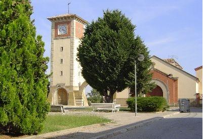 La Ràpita